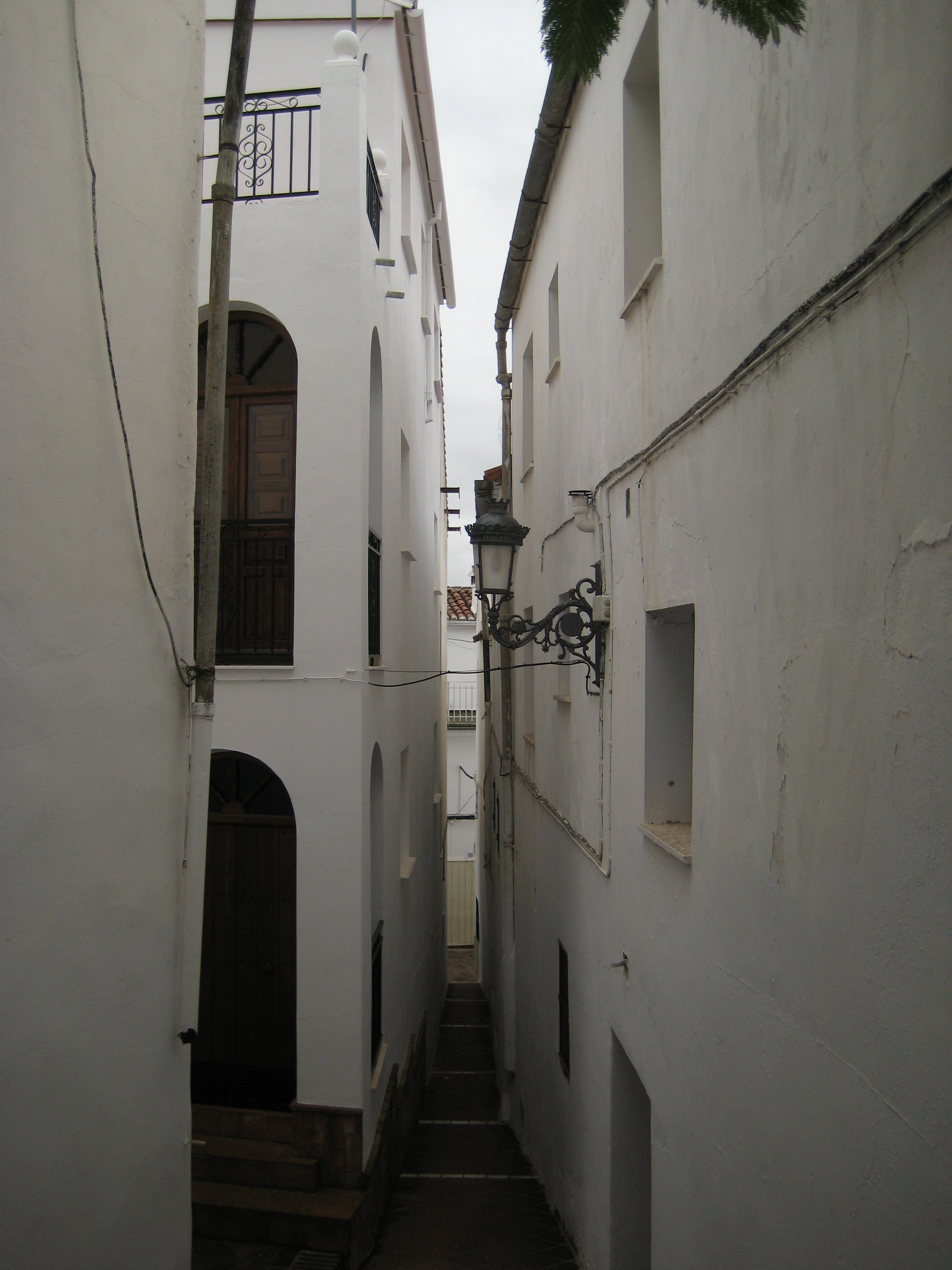 Street in Genalguacil, Málaga, Spain